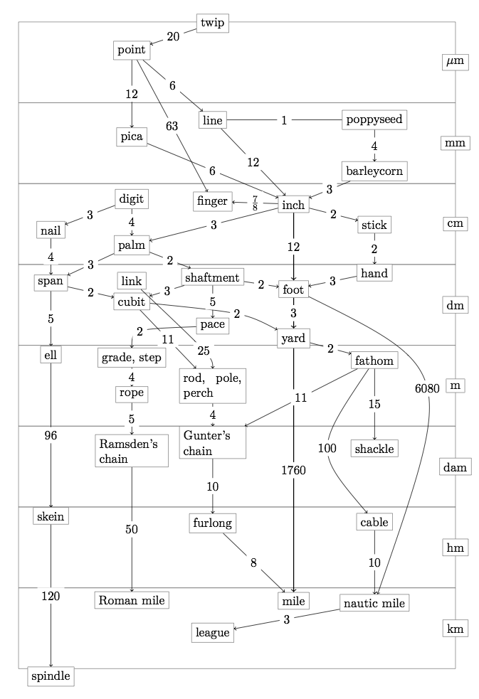 diagram of English length units and their integer relations to each other